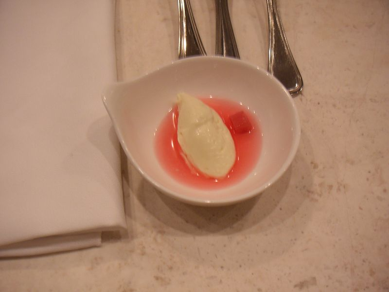 White chocolate mousse in rhubarb soup